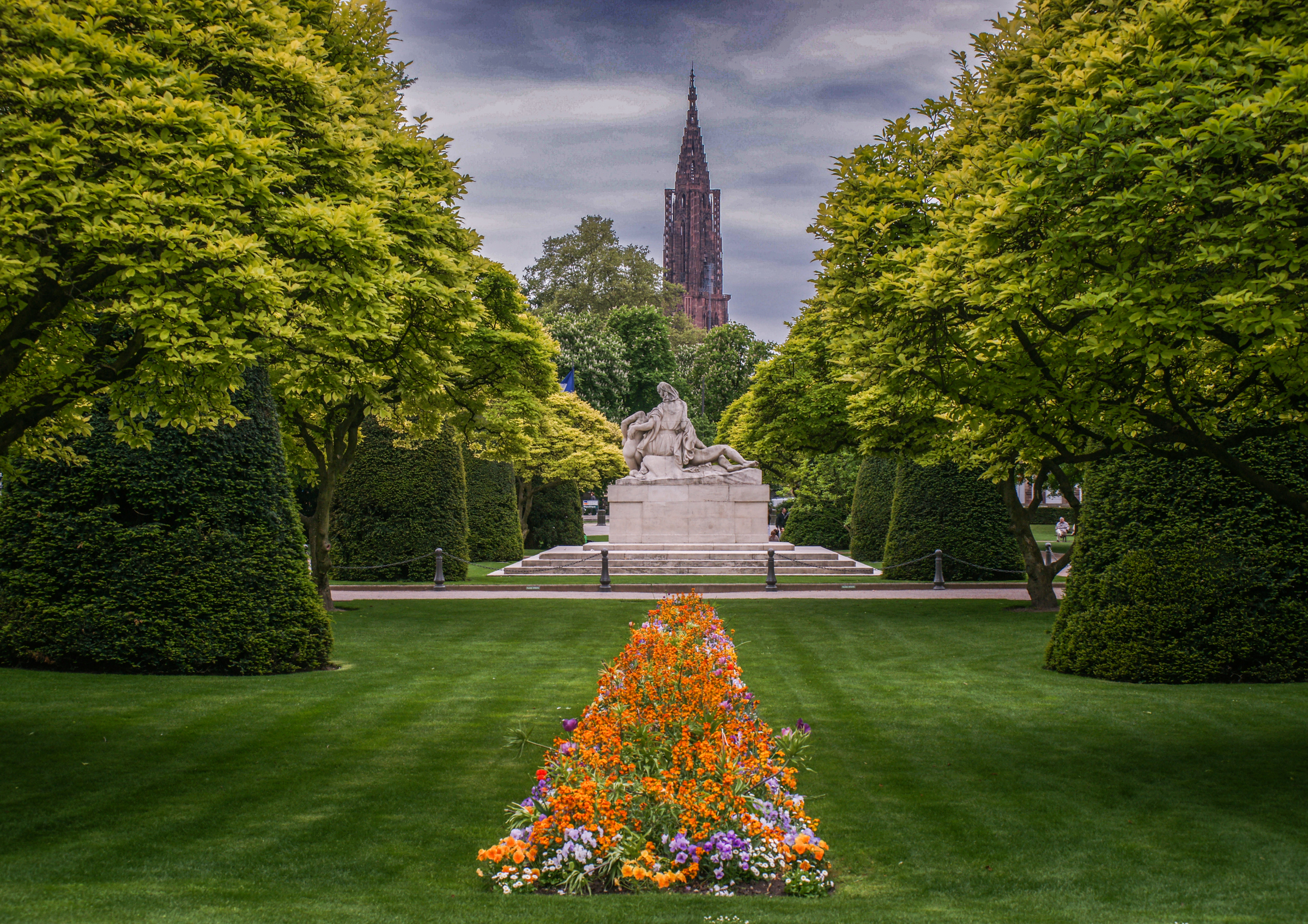 Lovers in public